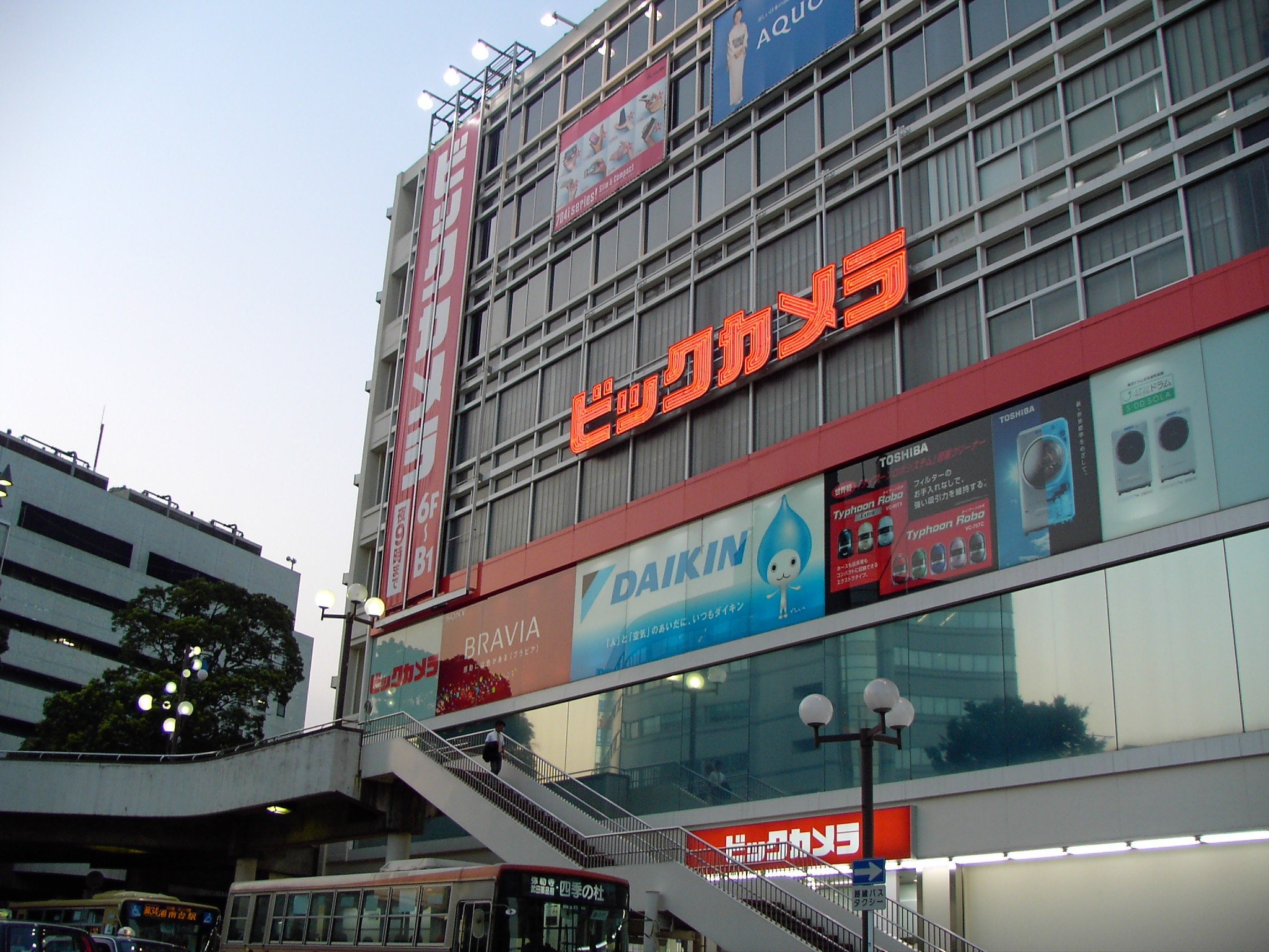 I photographed this photograph in front of BIC camera Fujisawa shop in Fujisawa-shi in one day in September.